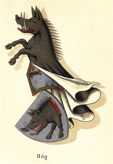 Coat of arms of the noble family Høg